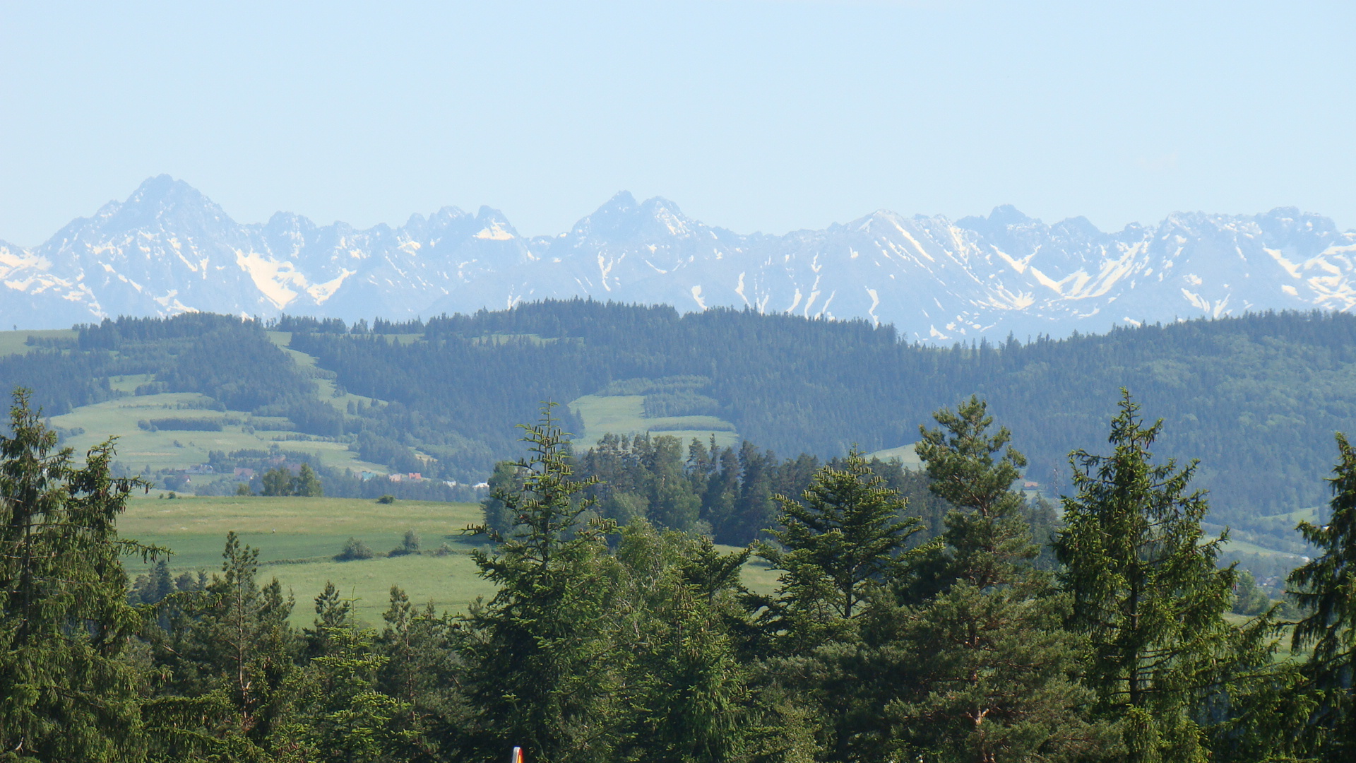 Panorama of Tatras (view from National Road Nr 28, at Skomielna Biała)